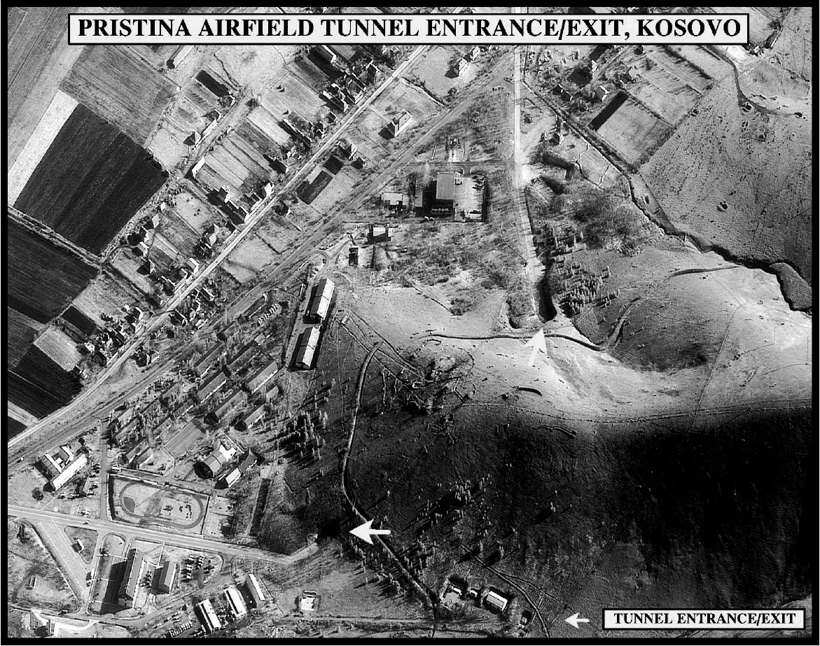 Pre-strike assessment photograph of the Pristina Airfield Tunnel Entrance/Exit, Kosovo, used by Joint Staff Vice Director for Strategic Plans and Policy Maj. Gen. Charles F. Wald, U.S. Air Force, during a press briefing on NATO Operation Allied Force in the Pentagon on April 22, 1999 and on April 30, 1999.